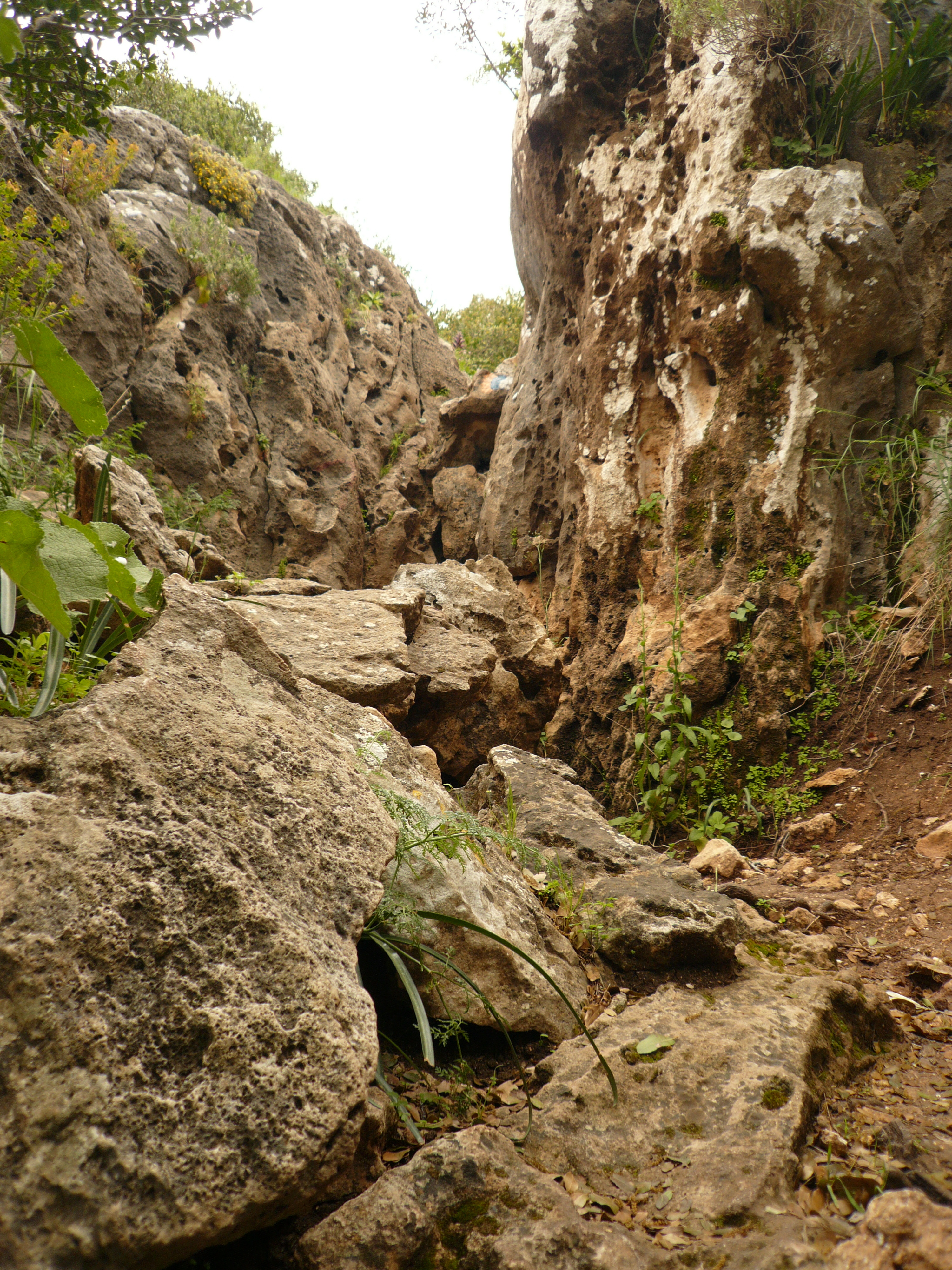 Section of Israel Trail in Karmel mountains.